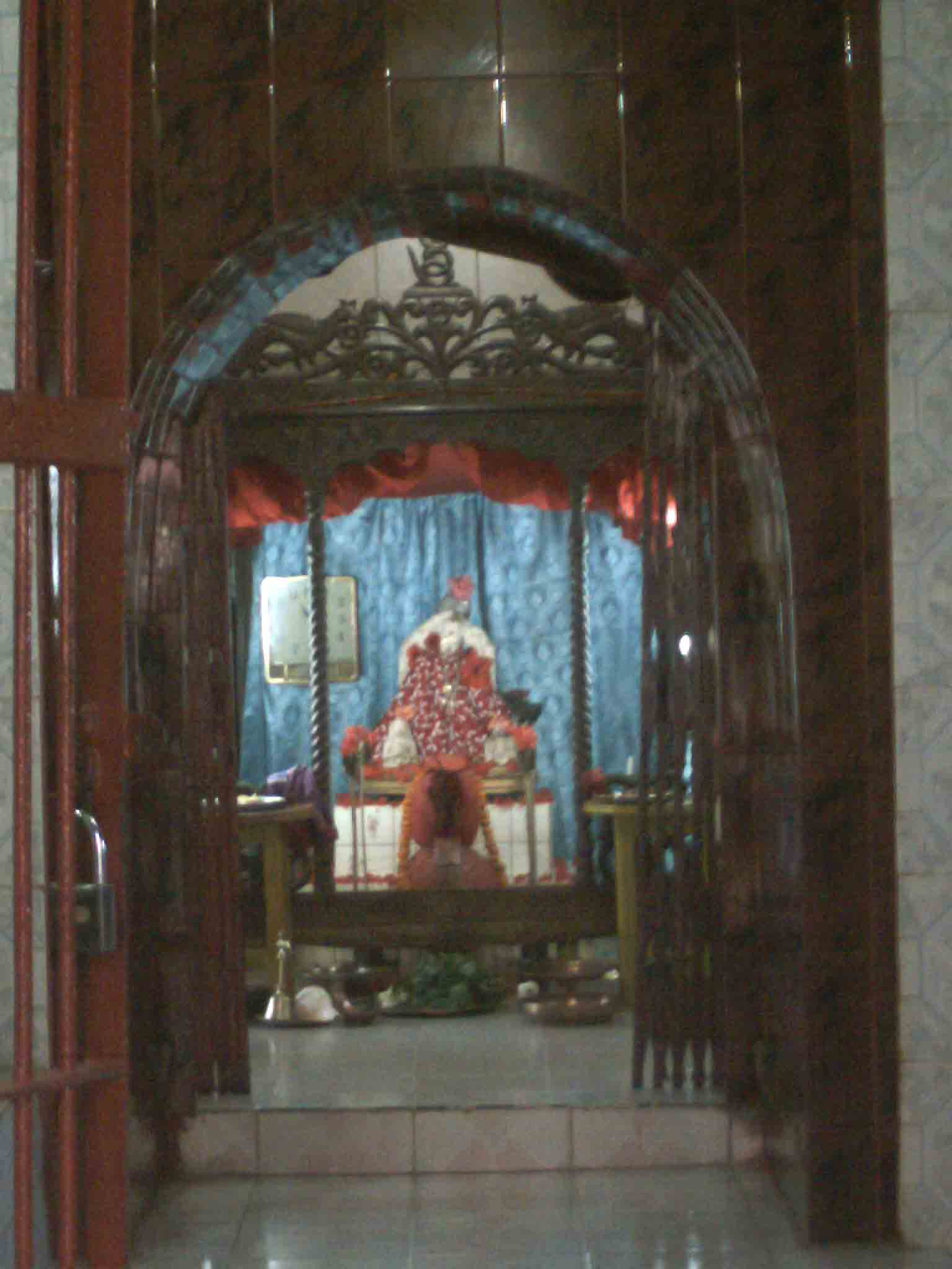 Moheshkhali Adinath hindu temple. Cox's Bazar, Bangladesh.